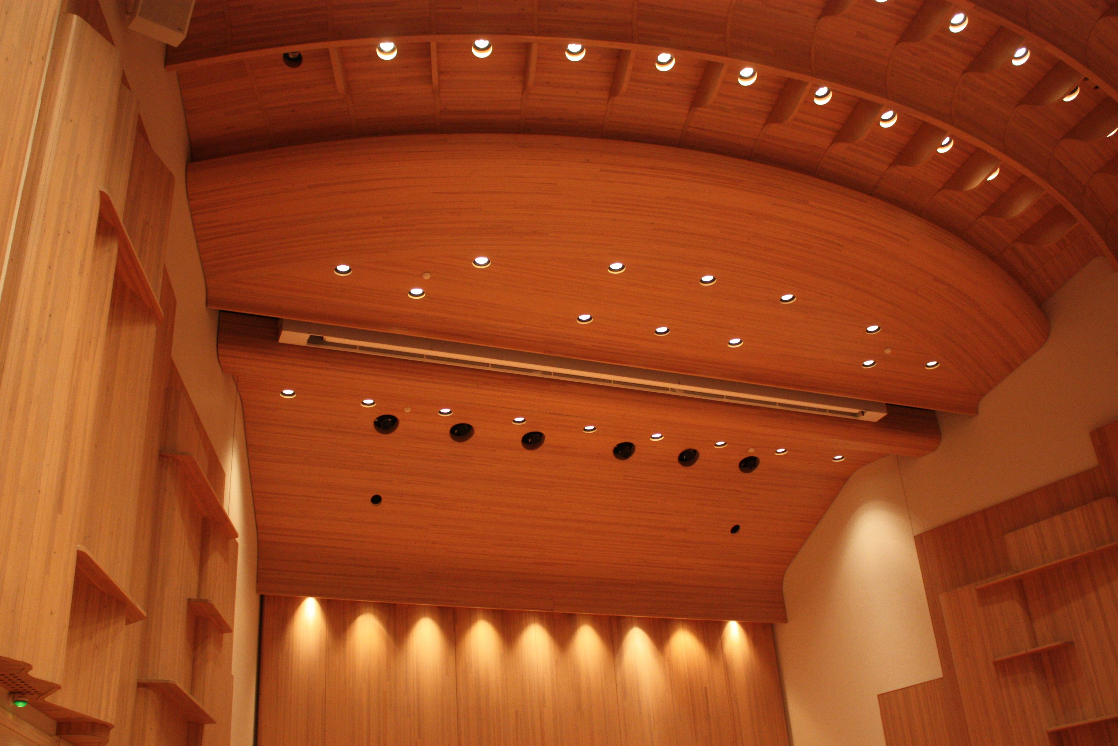 Ceiling of the Madetoja Hall in the Oulu Music Centre.